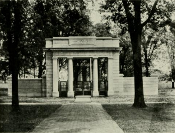 Haskell Memorial Entrance, from a 1908 publication.